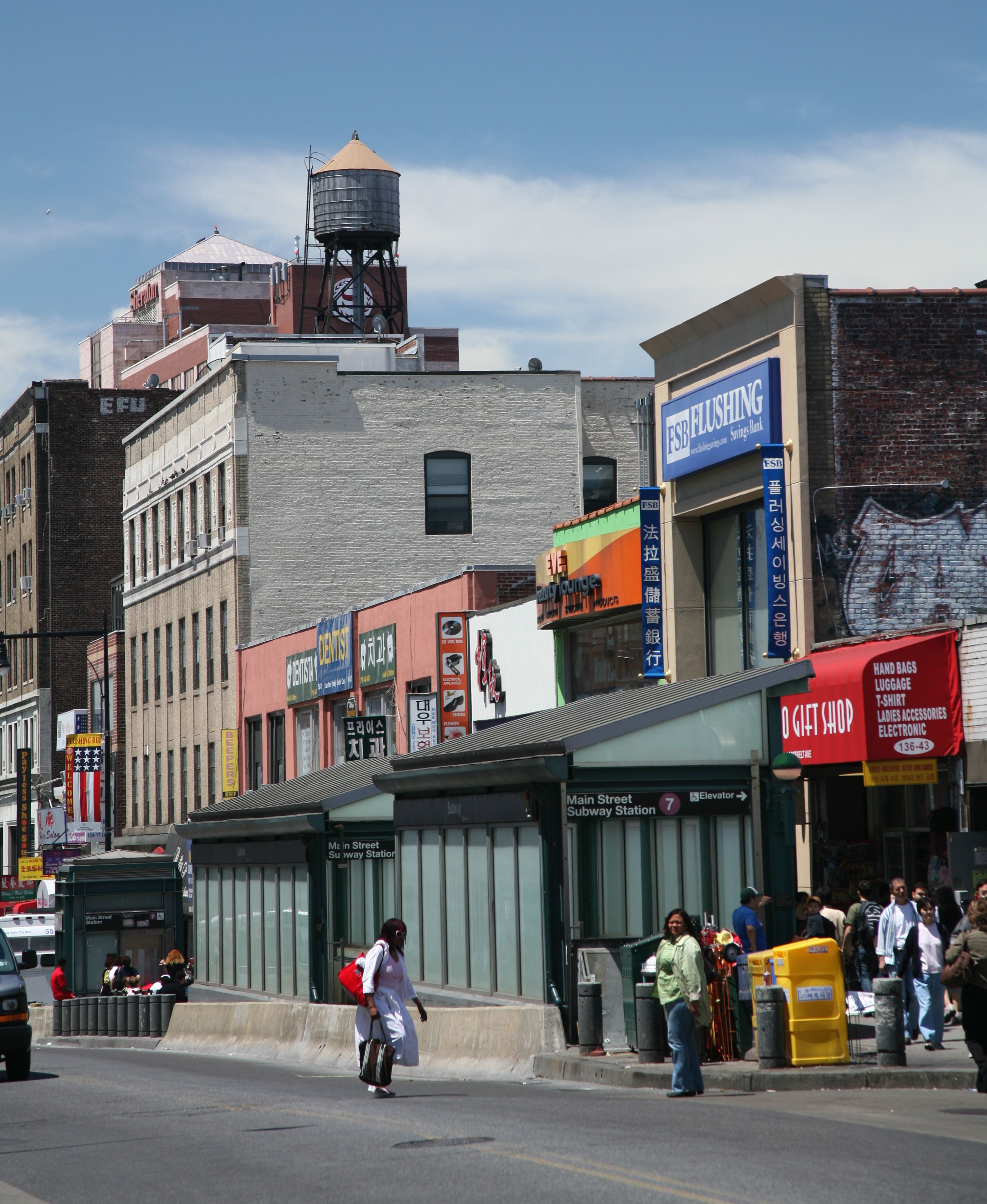 Main Street Flushing station, New York City Subway